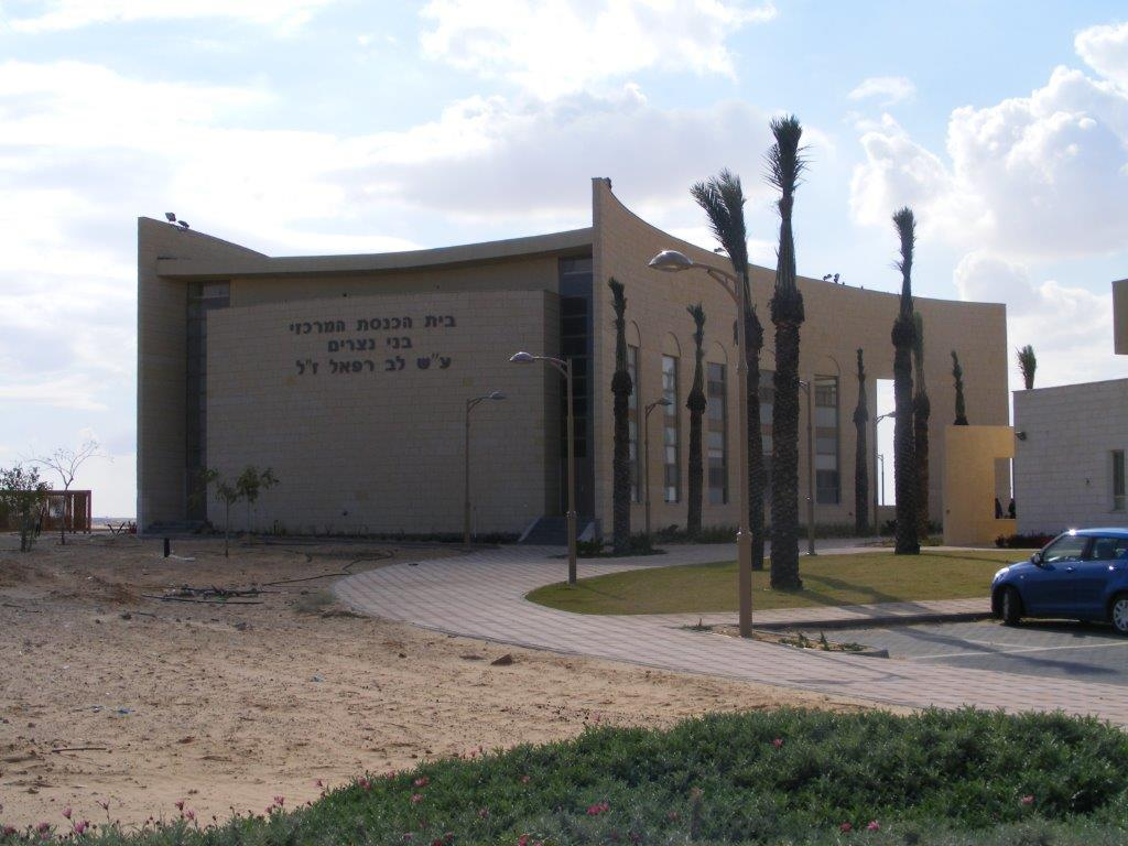 Architecture of Israel